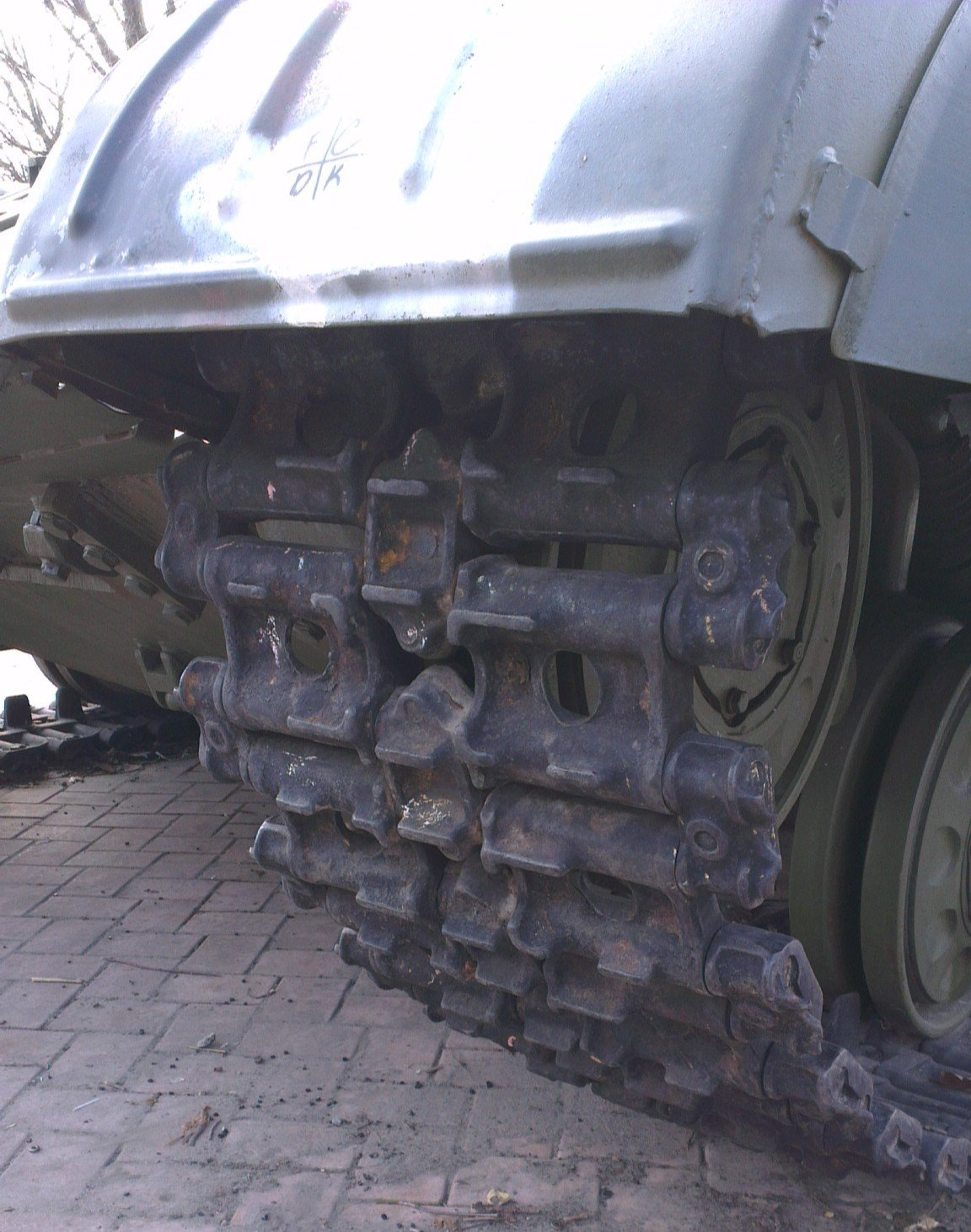 Track of a T-64B tank. Left side